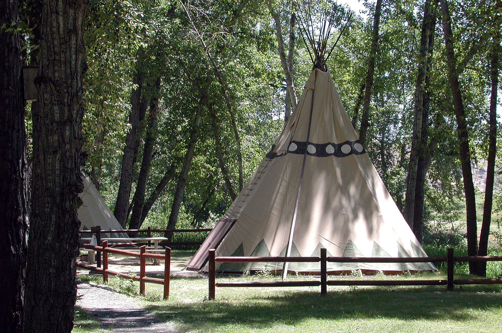 Tepee in Clyde Holliday State Recreation Site near Mount Vernon, Oregon